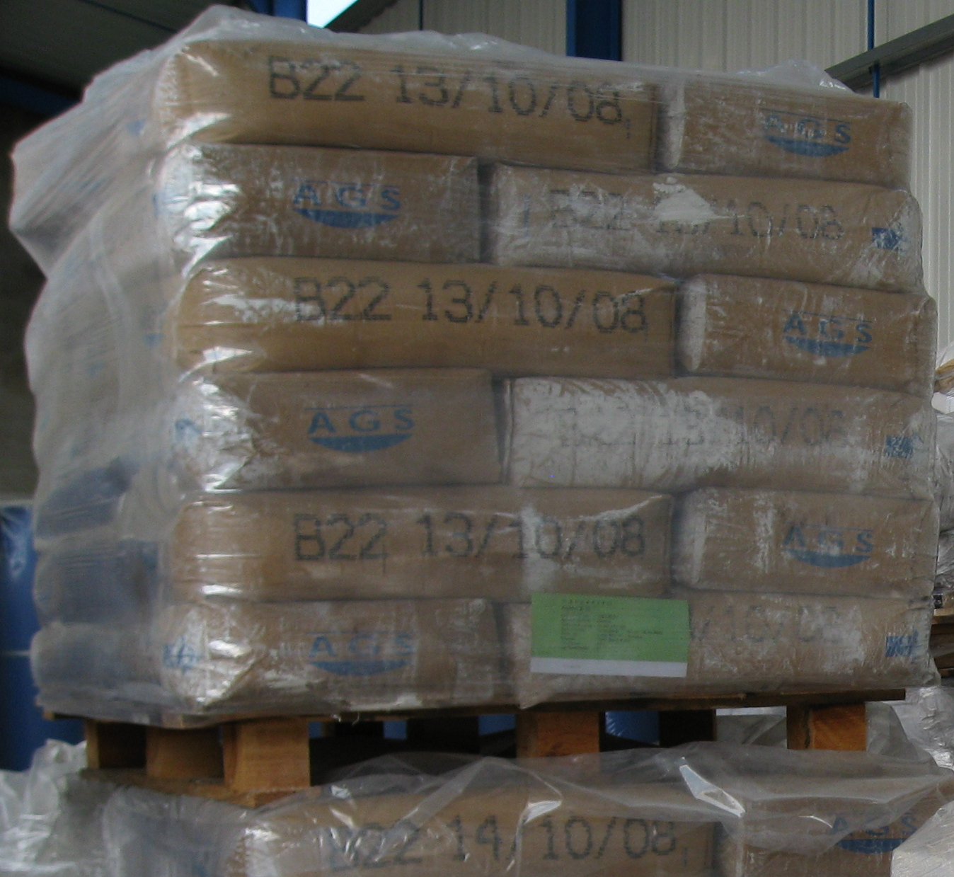 25 kg bags: sedimentary kaolinite (dry powder) from the Charentes basin. AGS Minéraux, Clérac, Charente-Maritime, France.